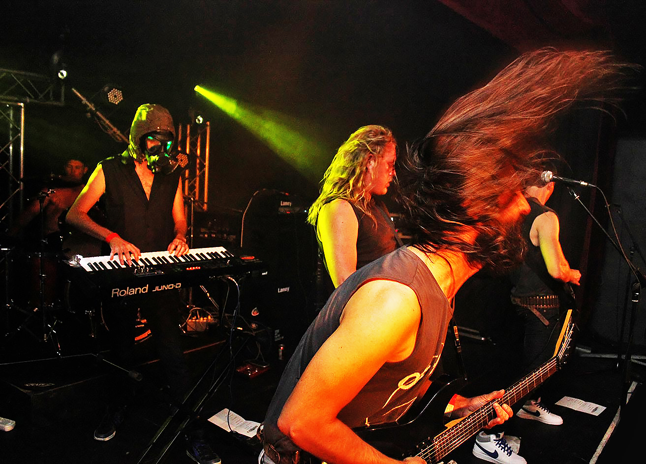 Infanteria band playing in Stellenbosch